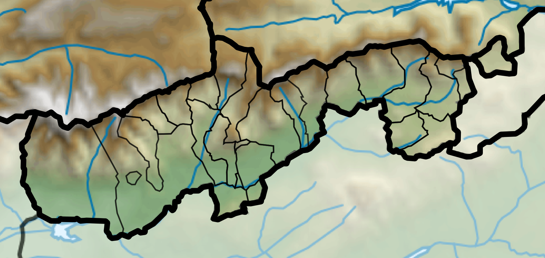 Map of the Arenas de San Pedro shire in the Province of Ávila, Spain.